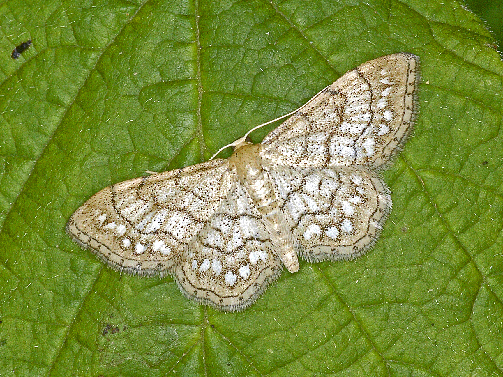 Idaea moniliata. Genova, Italy